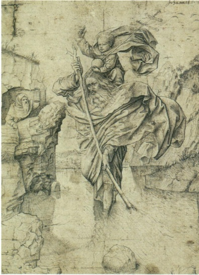 Saint Christopher, pen and brush on paper, 19cm x 14cm. Musee du Louvre, Paris